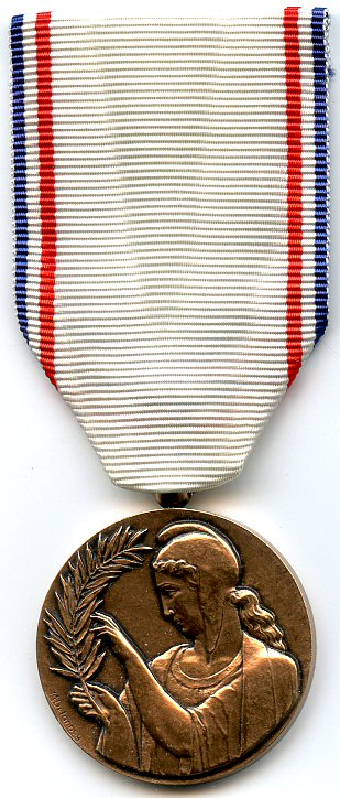 Medal of French Recognition (France) obverse